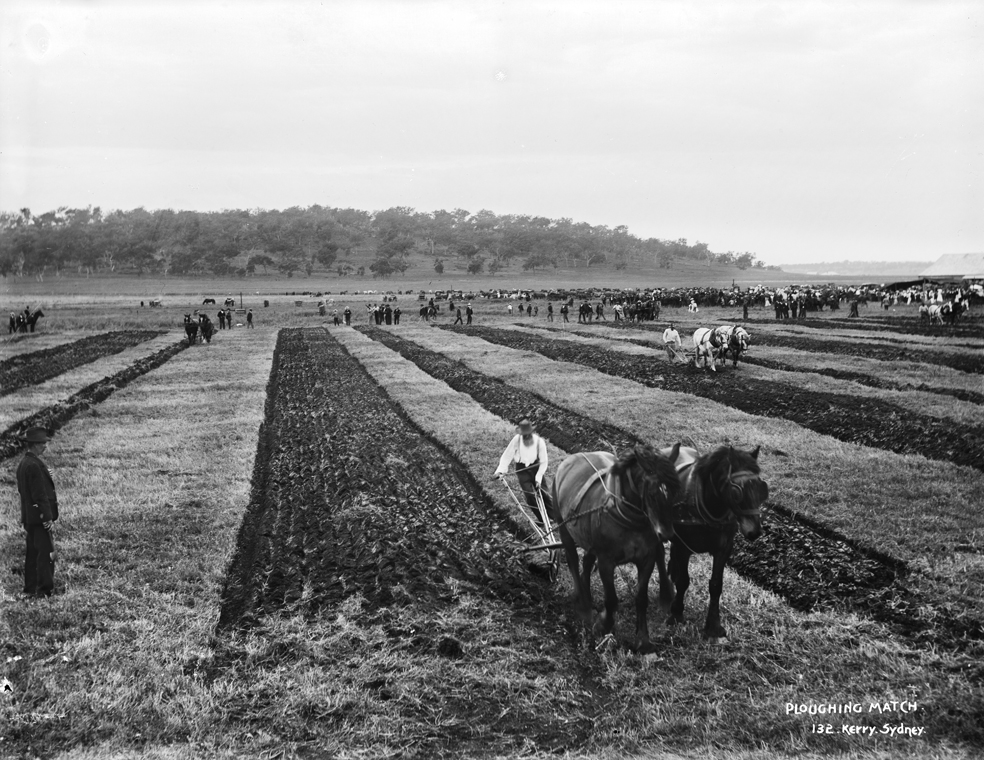 "Ploughing Match", Sydney, Australia, around 1900 – Silver gelatin dry plate glass negative in landscape format. The image depicts a ploughing competition at what appears to be an agricultural show. The competition is between teams of two-horse single-furrow mouldboard ploughs. Five teams are depicted in the image and numerous strips of alterate furrowed and unfurrowed land can be seen. One of the plough teams is depicted in the foregound of the image. The team consists of two horses harnessed to a single-furrow mouldboard plough which is hand controlled by a man walking behind the plough. A man can be seen in the foreground on the left side of the image, he is holding an axe and looking towards the plough team. Crowds of people can be seen in the background of the image. The crowds appear to be attending an agricultural show. Horse drawn vehicles and horses can also be seen in the background. A hill is depicted in the far background of the image. The caption, studio number and studio mark are inscribed on the reverse of the negative. 55/61 Tyrrell Inventory Number, 132 Kerry Studio Number.